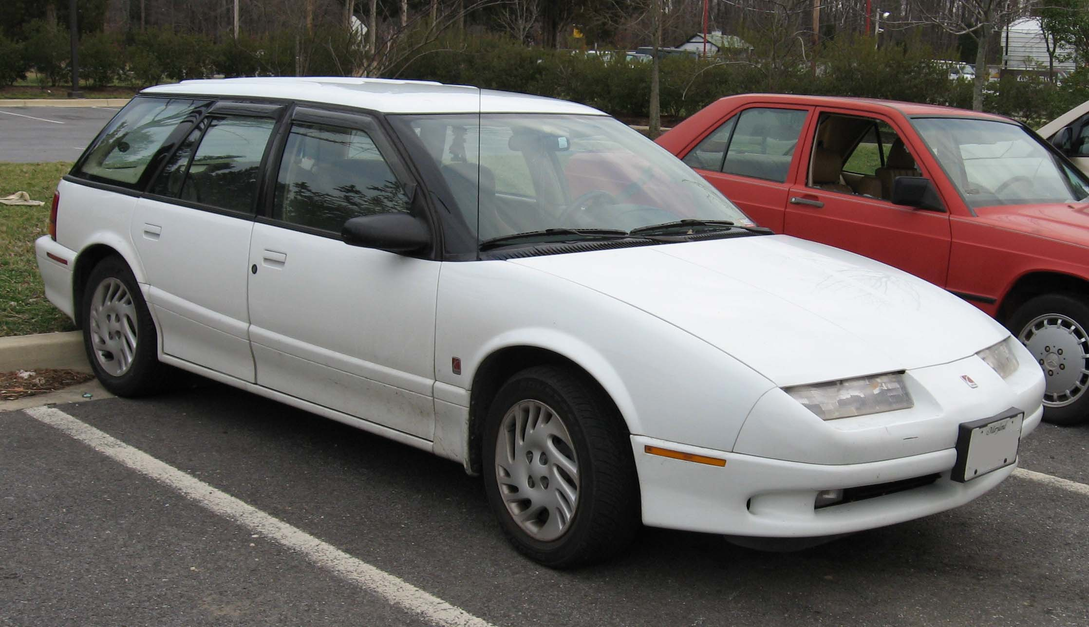 1991-1995 Saturn SW photographed in USA.